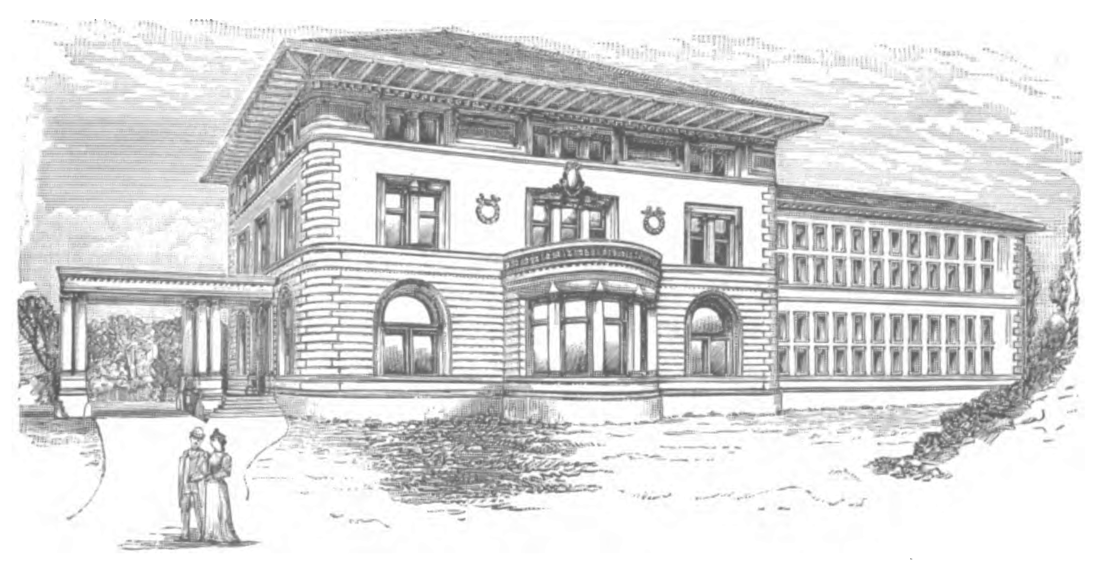 Architectural sketch of the new Silas Bronson Library in Waterbury, CT, constructed in 1894